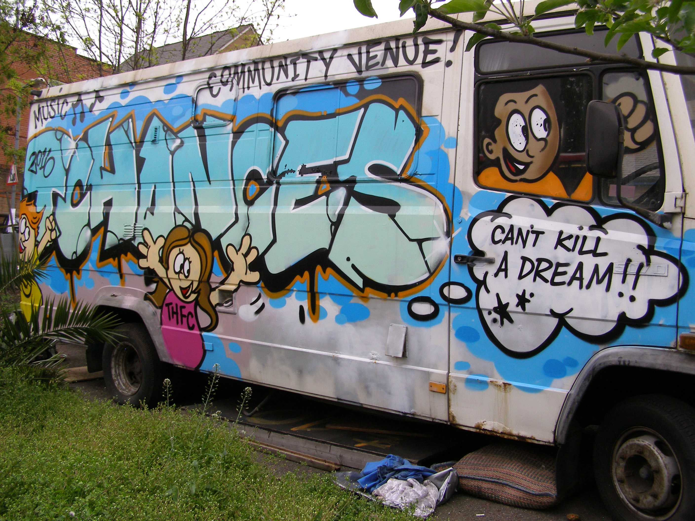 "T. Chances: Music: Community Venue: Can't Kill a Dream!!" (mural by OWED, Fall 2016). This van was parked in the car park at 399 Tottenham High Road from September 2016 to August 2017.